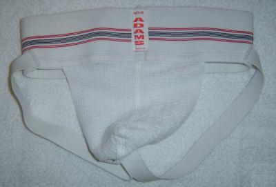 I hereby release this image to Wikimedia Commons.